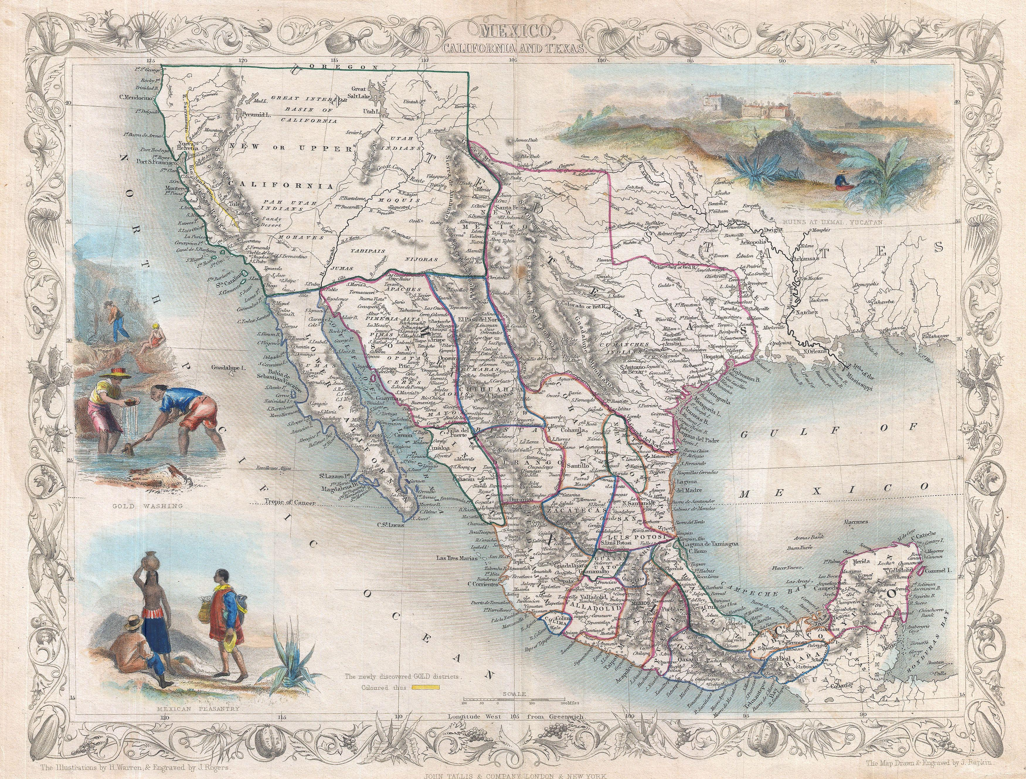 An exceptional example of John Tallis and John Rapkin's highly desirable 1851 Map of Mexico, Texas, and Upper California. Herein Texas is depicted at its fullest extent including both Santa Fe and a northern extension encompassing the Green Mountains. Drawn at the height of the California Gold Rush, this map responds to the international interest in the region by highlighting the gold fields in the Sacramento and San Joaquin valley. The “Great Caravan Route” used by covered wagons during the westward expansion is also noted. Tallis and Rapkin erroneously combine Great Salt Lake and Utah Lake - a curious and uncommon mistake that is most likely merely and engravers blunder. Upper California is surrounded by a green border, likely meant to communicate its transfer to the United States following the Treaty of Guadeloupe-Hidalgo, though such is not specifically noted anywhere on the map. Similarly, Texas, though clearly separated from Mexico is not clearly part of the United States. These omissions suggest that Tallis was reluctant to significantly update his map plates to reflect the changing political situation in the American Southwest. Offers several beautiful vignettes drawn by H. Warren and J. Rogers depicting the Ruins at Uxmal, Yucatan, panning gold in California, and Mexican Peasantry. Undated, but the defined gold regions allows us to identify this as the 1851 issued of Tallis’s valuable map. Drawn by John Rapkin for issue in the 1851 edition of John Tallis' Illustrated Altas .